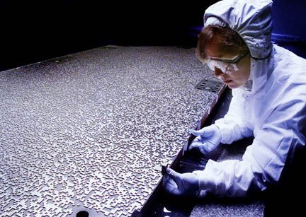 Swift's instrument : Burst Alert Telescope (BAT) the Coded aperture mask Coded aperture is a mask positioned in front of the gamma-ray detectors. Swift's coded aperture mask sits 1-meter from the detector plane, and is made from about 54,000 lead tiles arranged in a random half-open/half-closed pattern. Each tile measures 5 x 5 x 1 mm. While the overall tile pattern is random, computers know the position of each tile. When gamma-rays come through the BAT, the lead tiles stop some, while the open areas let others through to the detector. In this way, the mask casts a shadow on the detector plane. Using the position of the shadow, the computers can determine the direction of the gamma-ray source.